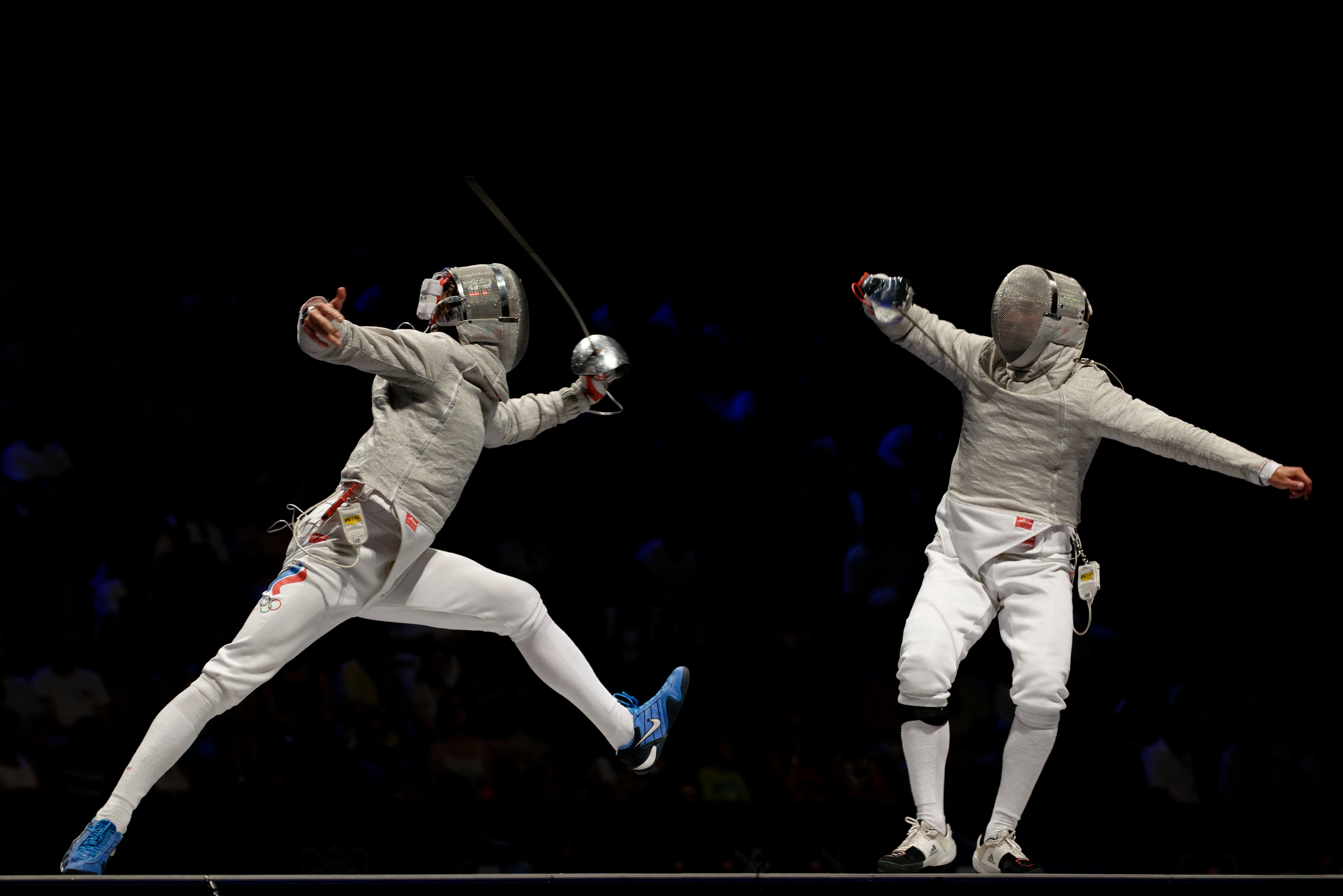 Russia's Veniamin Reshetnikov (L) competes against his fellow countryman Nikolay Kovalev (R) in the final of the men's sabre event in the 2013 World Fencing Championships 2013 at Syma Hall in Budapest, 10 August 2013.